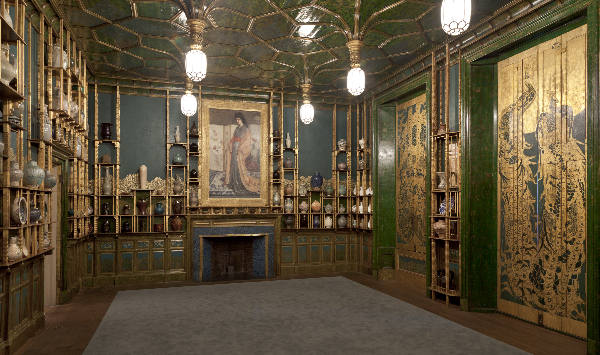 An image of the Peacock Room featuring the Princess in the Land of Porcelain painting by James McNeill Whistler